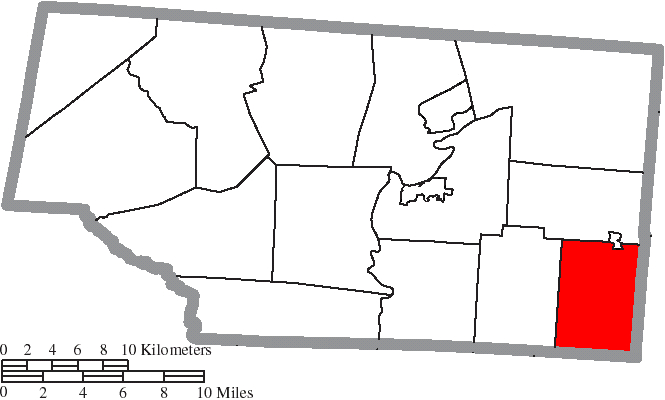 Map of the municipal and township boundaries of Pike County, Ohio, United States, as of the 2000 census, with the location of Marion Township highlighted. Township borders are shown only in unincorporated areas in order to differentiate incorporated and unincorporated areas more clearly.